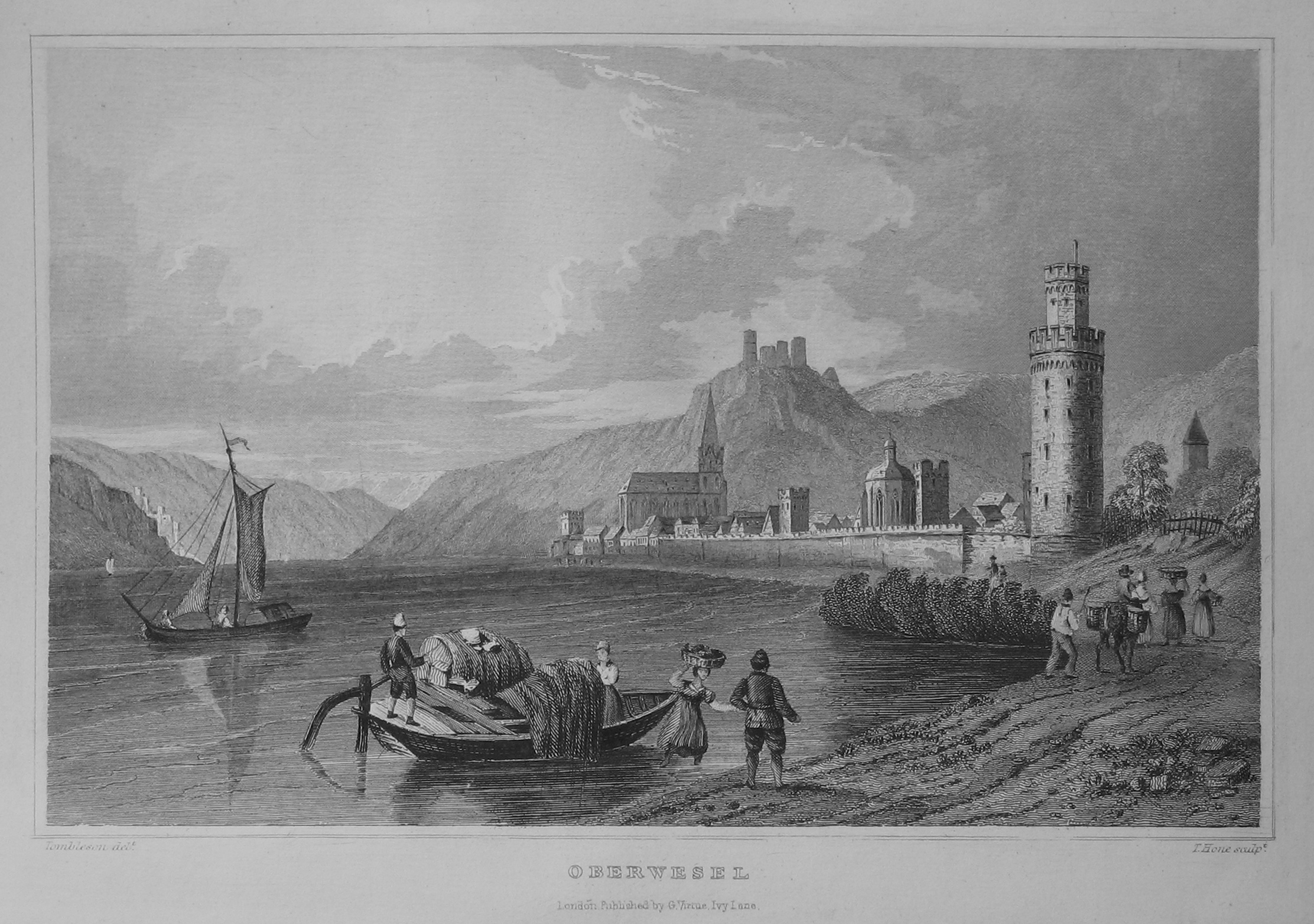 Steel engraving from "Views of the Rhine" by William Tombleson (around 1840): Oberwesel